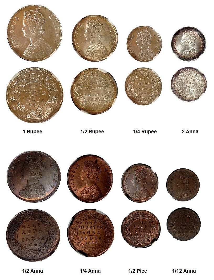 ! Page !! Caption }